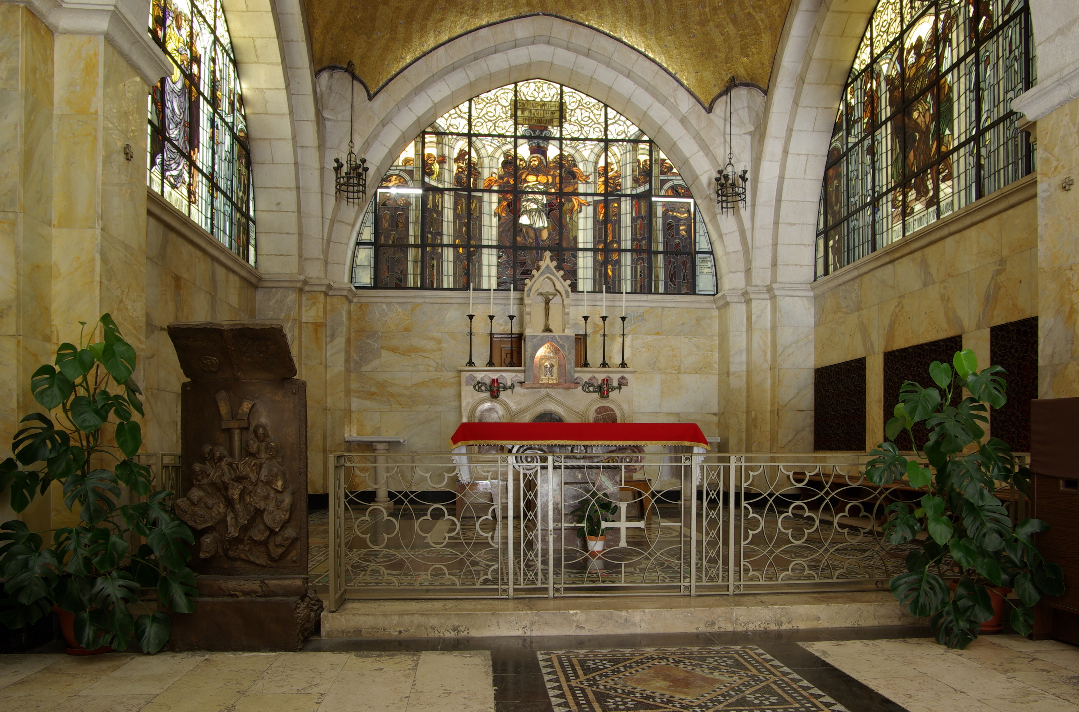 Jerusalem, Church of the Flagellation, inside view.